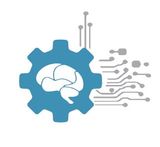 This logo is to serve as the primary means of visual identification at the top of the article dedicated to the CSNE.